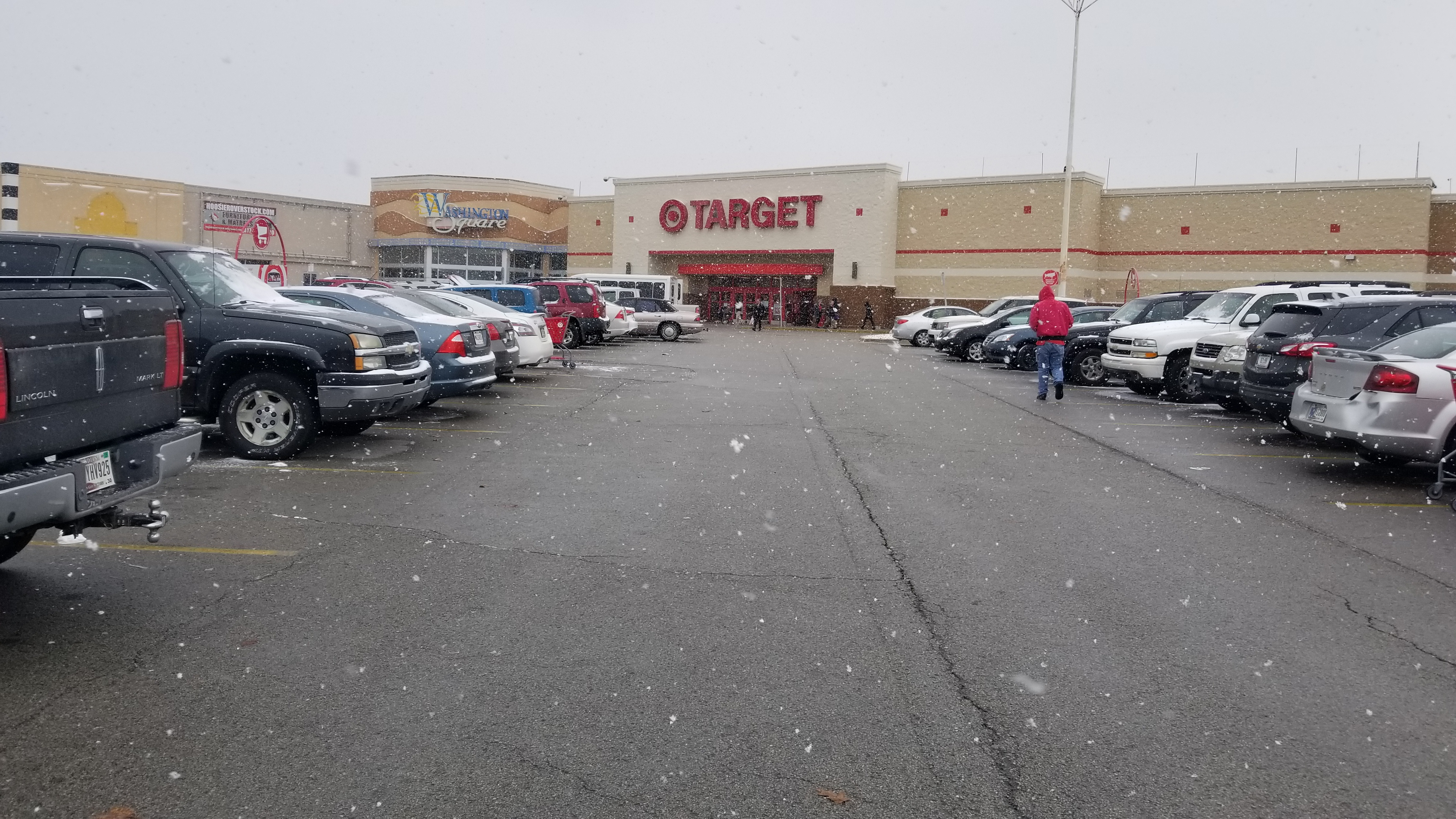 This photo depicts an entrance to Washington Square Mall, located in Indianapolis, Indiana, USA.